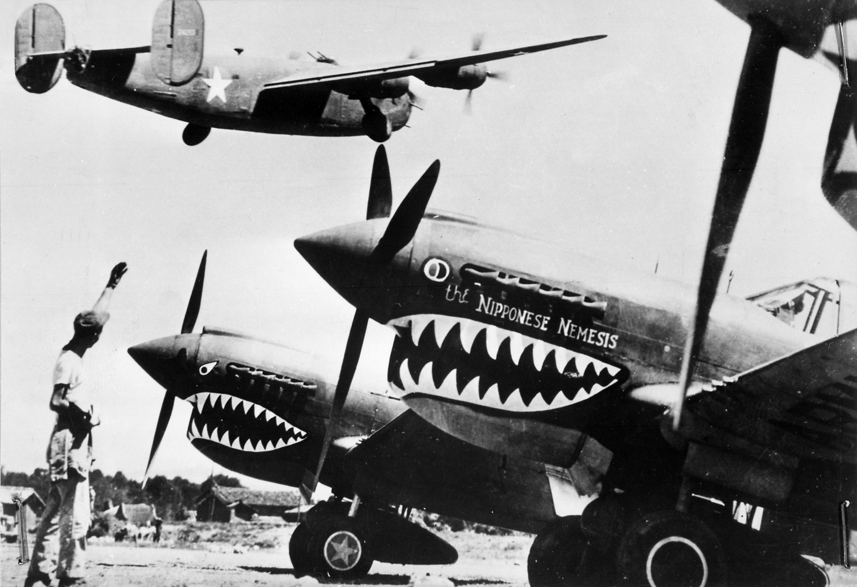 Landing wheels recede as this U.S. Army Air Forces Liberator bomber crosses the shark-nosed bows of U.S. P-40 fighter planes at an advanced U.S. base in China. An American soldier waves good luck to the crew, off to bomb Japan., ca. 1943